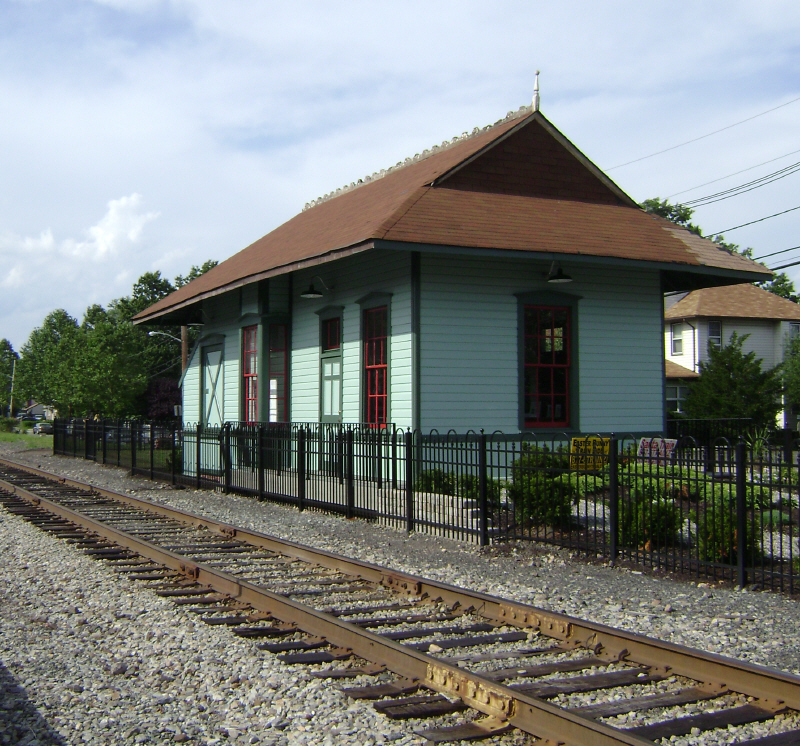 Hawthorne (NYS&W station), viewed from Grand Avenue. The station, previously cream colored, has been repainted blue-green. It has also been pushed back from the corner of Royal Ave and Diamond Bridge Ave. Photo taken July 4, 2011.